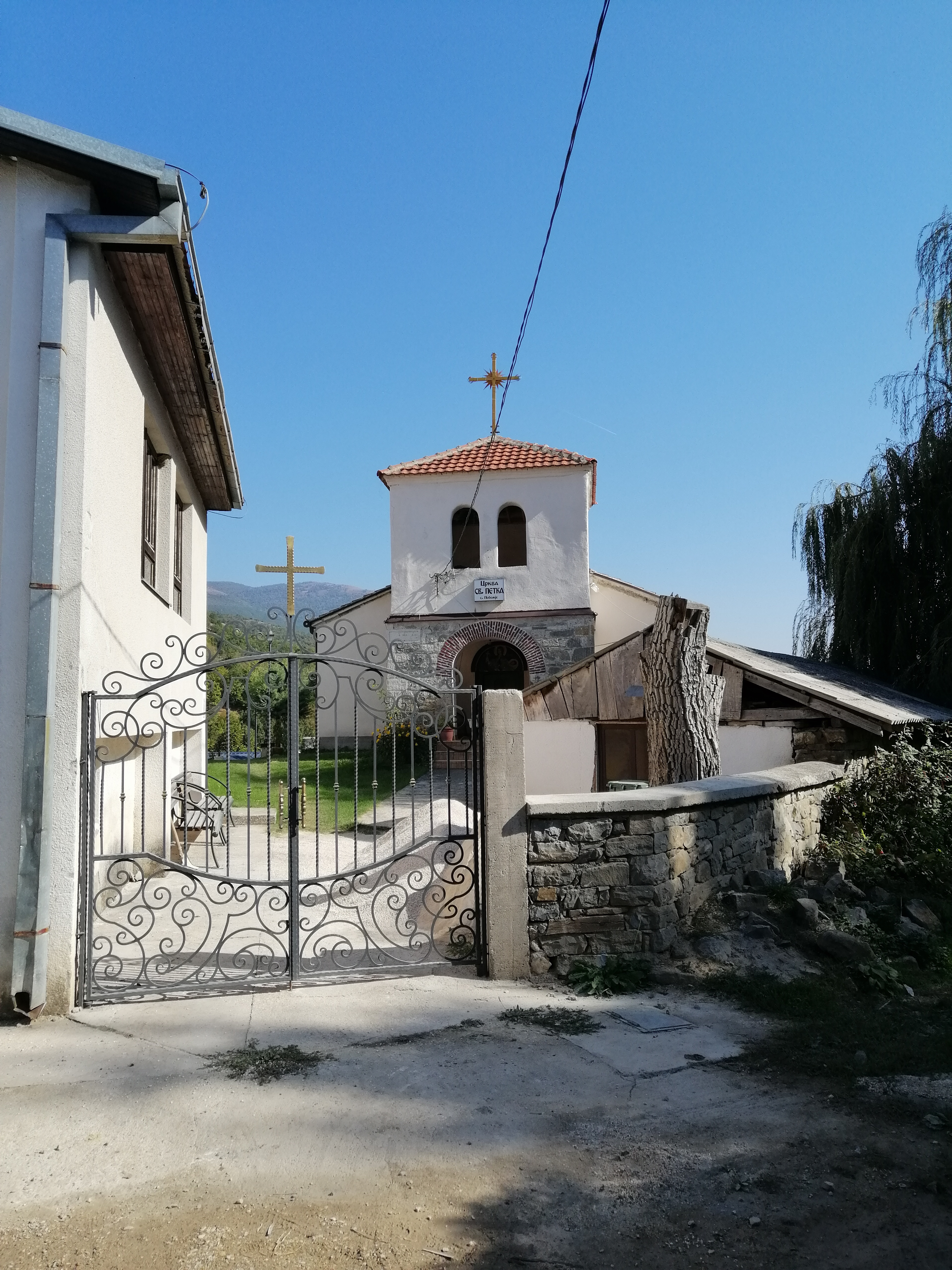 View of the St. Petka Church in the village Pobožje